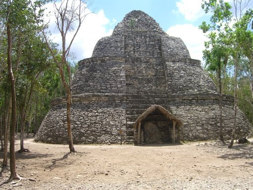 small pyramid at Cobá, Yucatán